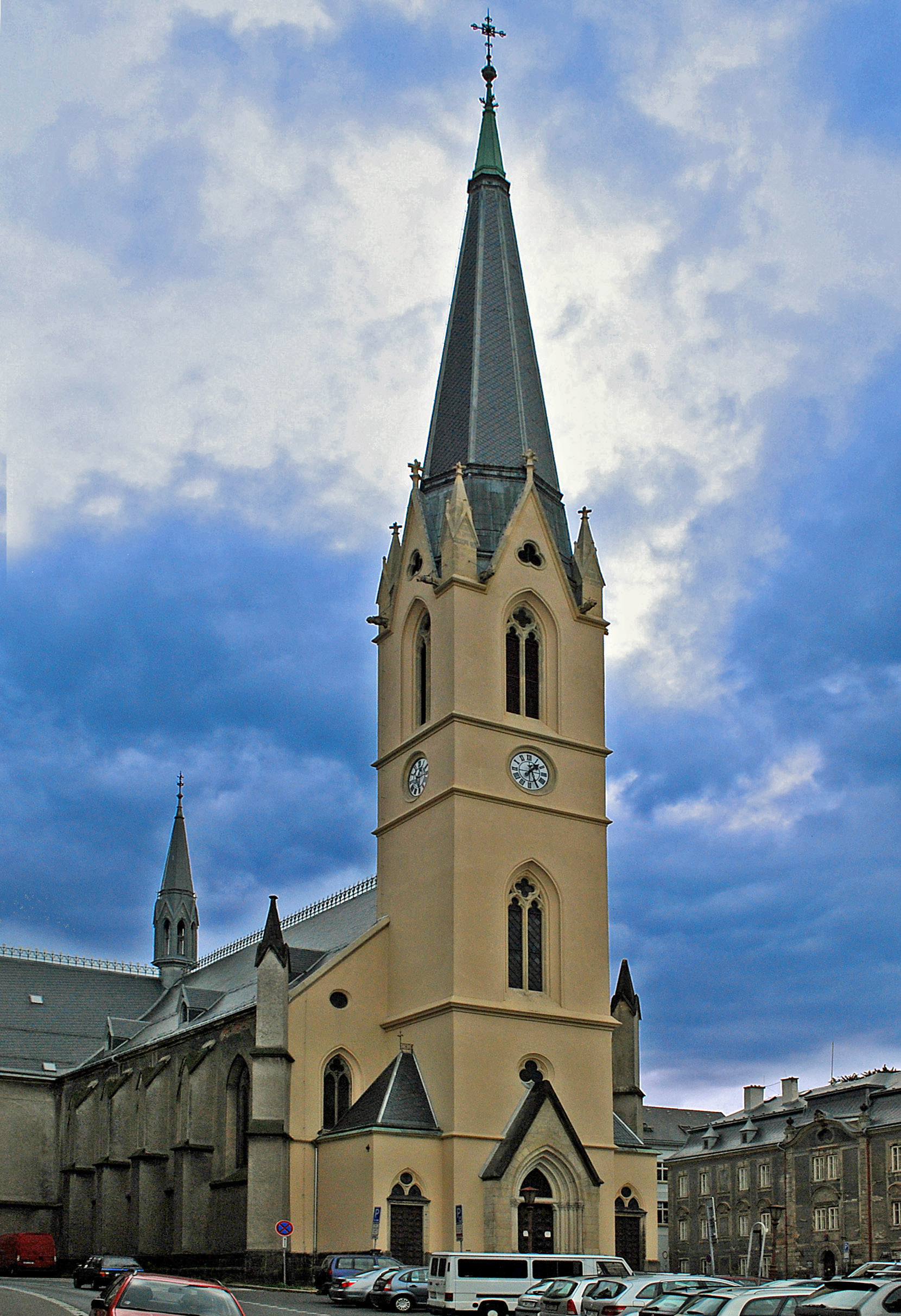 Church of St Anthony the Great in Liberec, Czech Republic